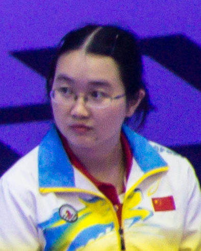 Batsiashvili Nino receives her medal